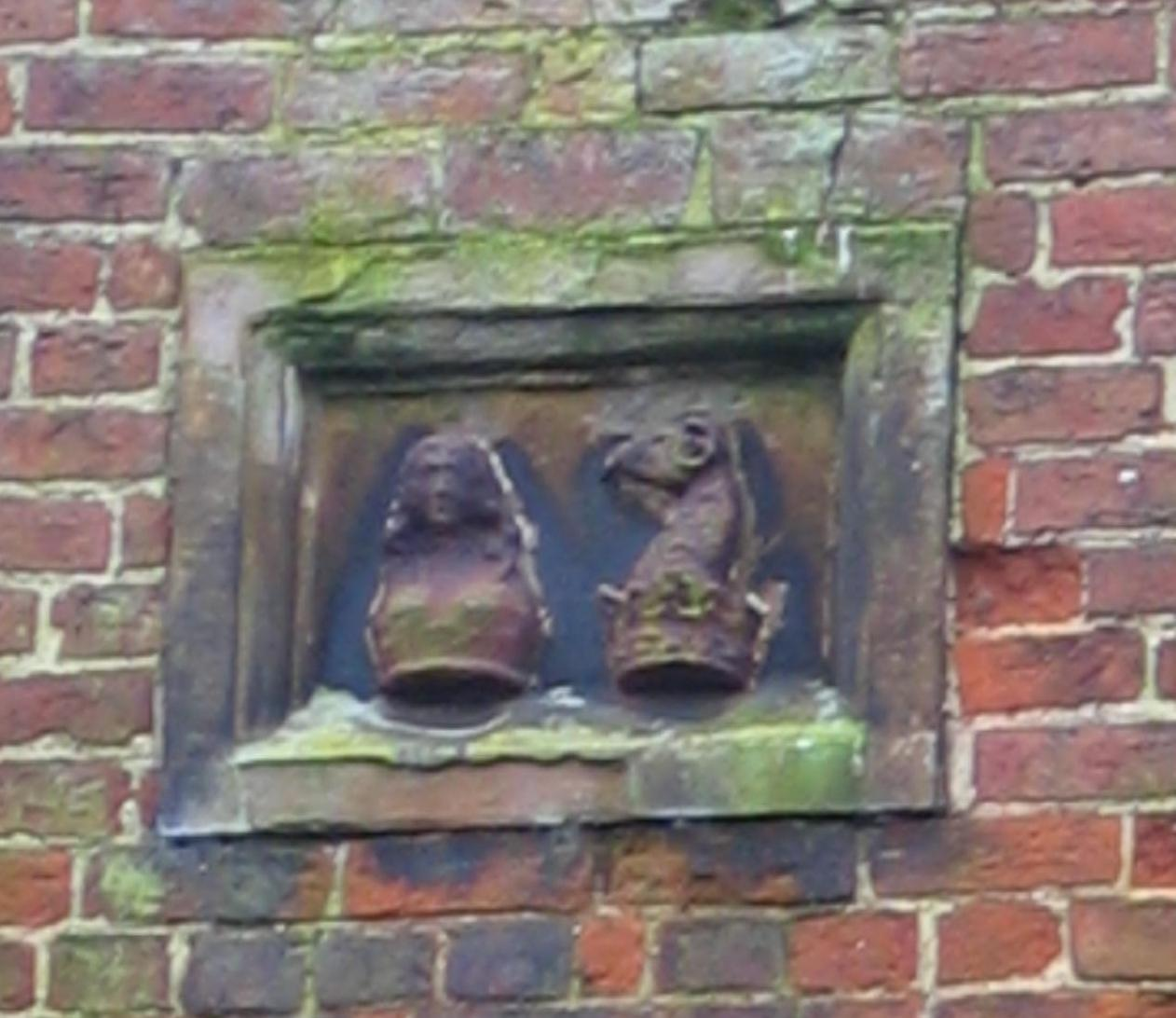 Symbols taken from the Legh Keck coat of arms at Bank Hall in Bretherton